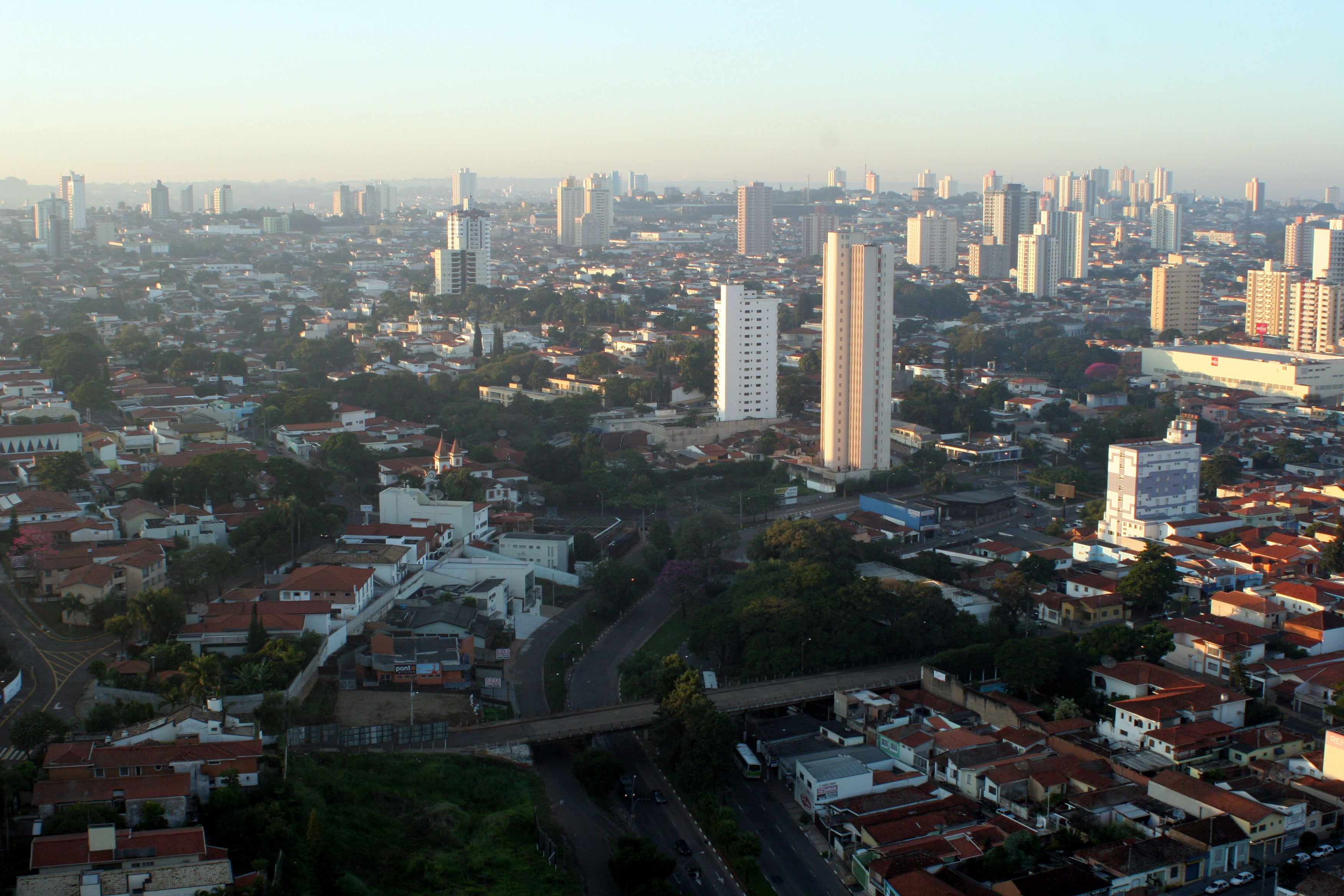 Aerial view of Piracicaba, São Paulo, Brazil.